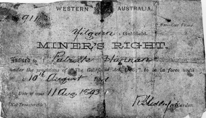 This image shows a photograph of Paddy Hannan's miner's right. The photograph was taken in 1893. The original photograph is held by the State Library of Western Australia. A digital image of the photograph was created by the State Library of Western Australia and is available from the Library Information Service of Western Australia (LISWA) website. The LISWA image includes an assertion of copyright 2001, but this assertion is incorrect: the image is in the public domain under both Australian and US copyright law. This digital image is a cropped version of the LISWA digital image that eliminates the incorrect copyright notice.